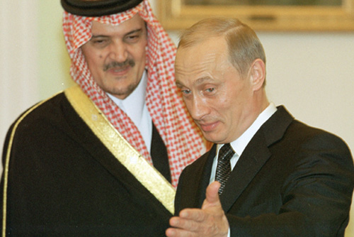 THE KREMLIN, MOSCOW. President Vladimir Putin meeting with Saudi Foreign Minister Saud al-Faisal bin Abdul-Aziz al-Saud.